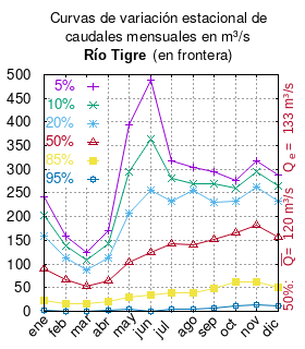 Curvas de variación estacional del río Tigre tras cruzar la frontera hacia Chile. # Dirección General de Aguas # Análisis y modelación hidrológica de la cuenca del río Palena # Santiago de Chile # Ministerio de Obras Públicas (Chile) # 2015 # url: # Tabla 48. Curva de variación estacional para la estación Río Tigre en la frontera., pág. 86 mes 5% 10% 20% 50% 85% 95% ene 242.81 203.42 160.13 90.17 23.07 3.26 feb 160.08 138.38 112.46 65.82 15.33 1.04 mar 125.50 108.11 87.91 52.85 16.42 1.12 abr 170.74 142.86 112.70 64.93 20.14 1.25 may 394.81 294.94 207.79 102.84 30.94 3.67 jun 488.07 364.49 256.30 125.46 35.31 1.12 jul 318.11 280.45 233.29 143.04 38.43 4.23 ago 303.21 268.89 255.28 140.24 39.56 4.58 sep 295.70 268.56 231.47 151.94 47.37 7.65 oct 276.87 259.90 233.54 166.70 61.07 12.08 nov 318.36 295.63 261.89 181.22 61.75 13.89 dic 288.47 265.64 232.84 157.65 51.33 10.42